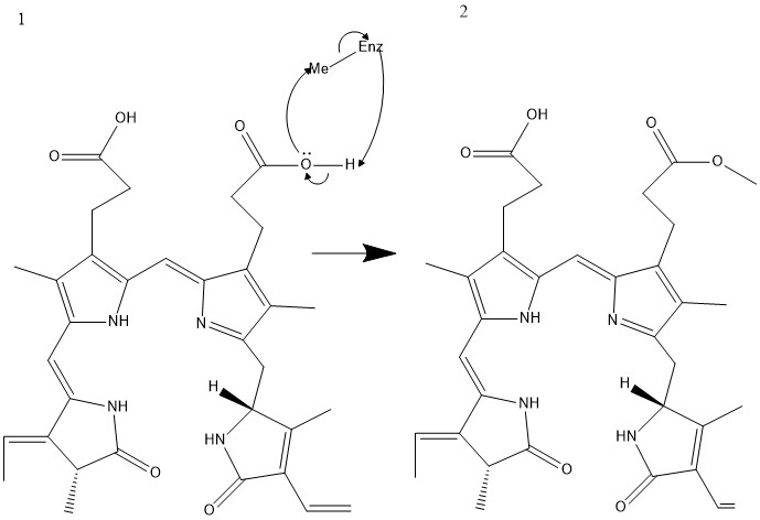 APV Synthesis Mechanism